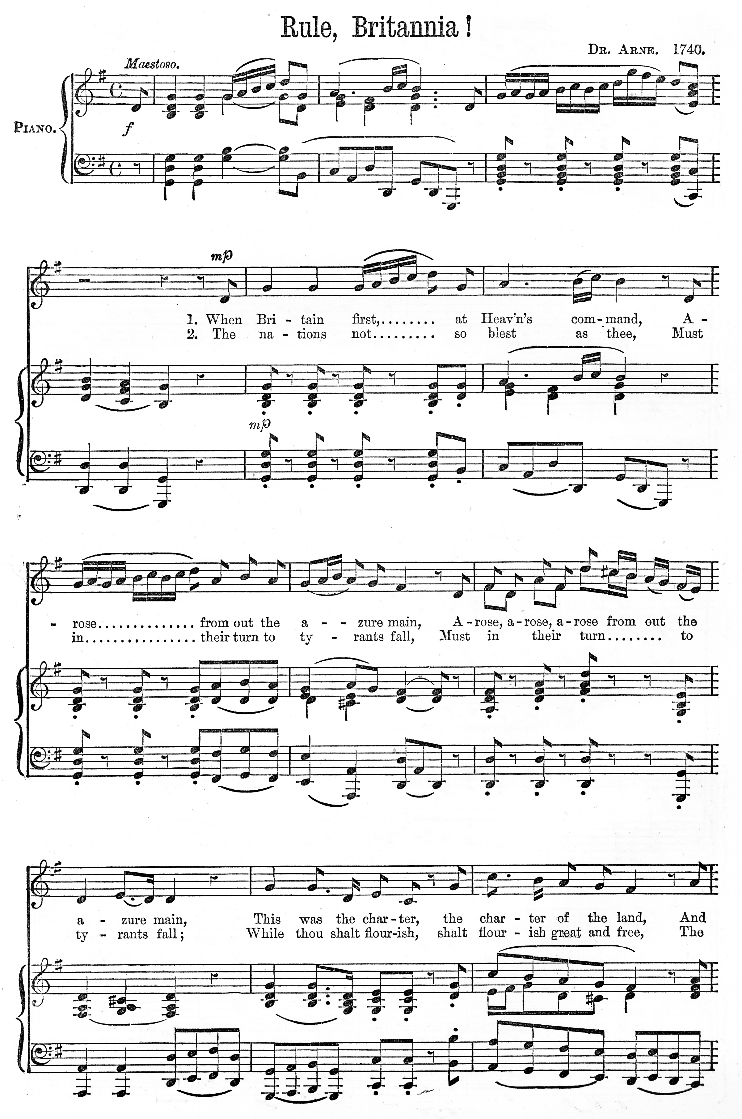 First page (of two) of the sheet music to "Rule, Britannia!" by James Thomson (lyrics) and Thomas Arne (music). One of the most popular British patriotic tunes.